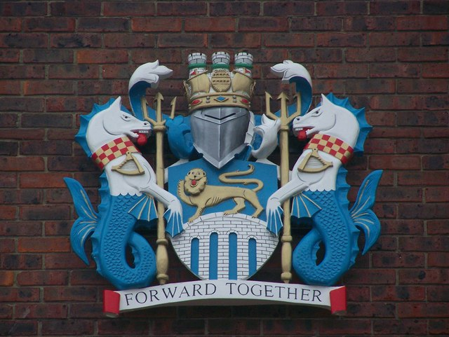 Medway Council Crest. On the rear of the Gun Wharf Council Offices on the River Medway. Front of offices seen in my photo 1024482 Seen from the footpath along the River.